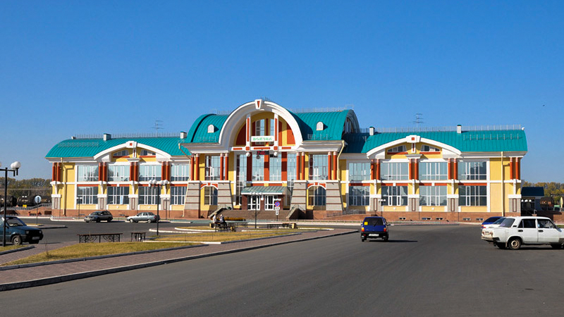 Biysk Railway Station